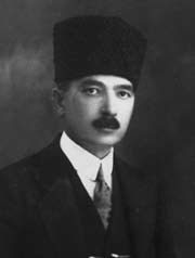 Talât Avni Bey (Özdoğru), an Ottoman and Turkish army officer. He is the elder brother of Şefik Avni Özüdoğru]